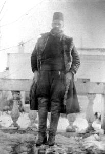 Prosios Votsios from Koupa in Thessaloniki